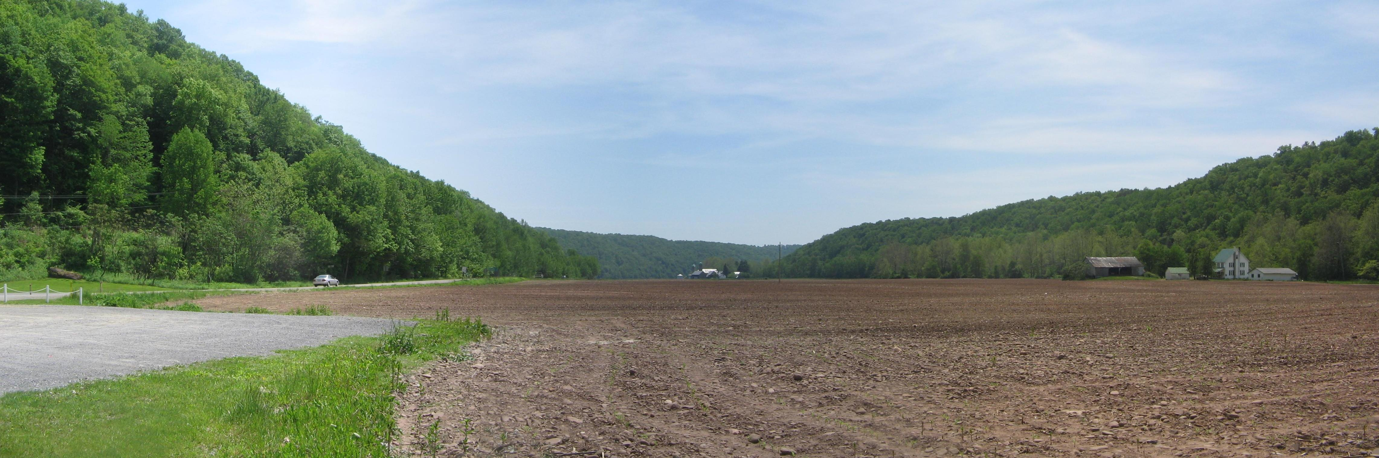 Muncy Valley Panorama, US Route 220 and the Muncy Creek valley in Davidson Township, Sullivan County, Pennsylvania, USA